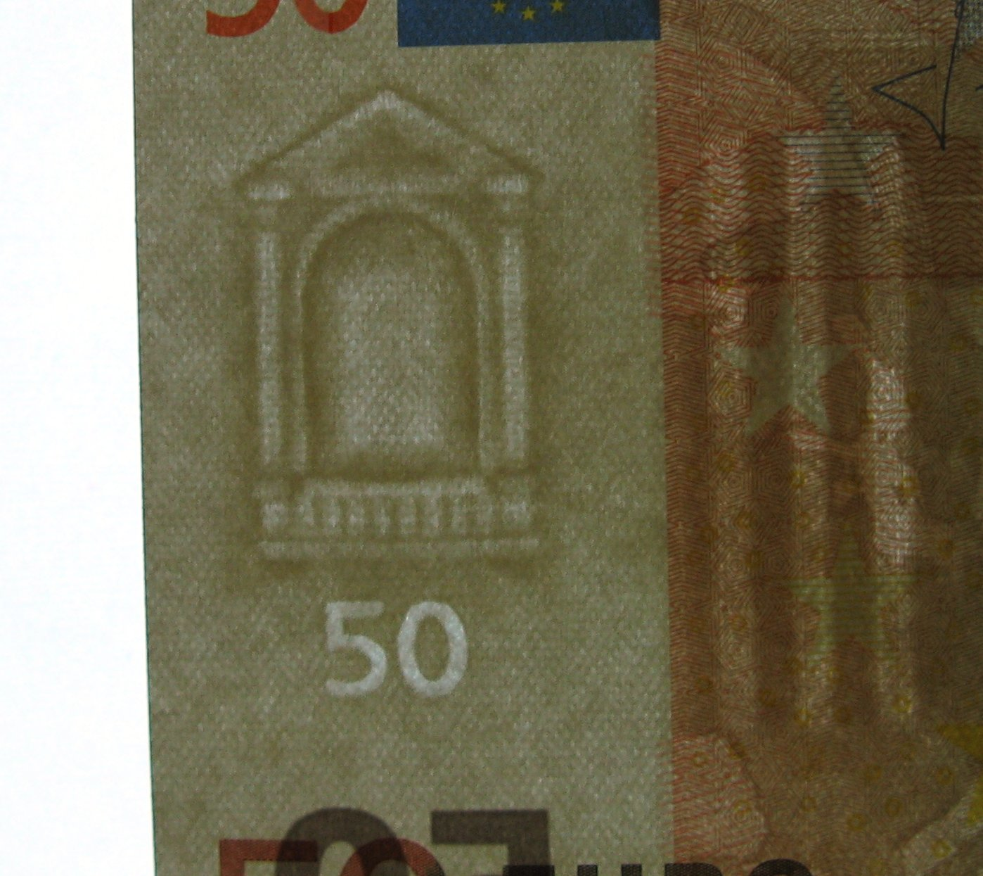 50 euro banknote held against light to show the watermark